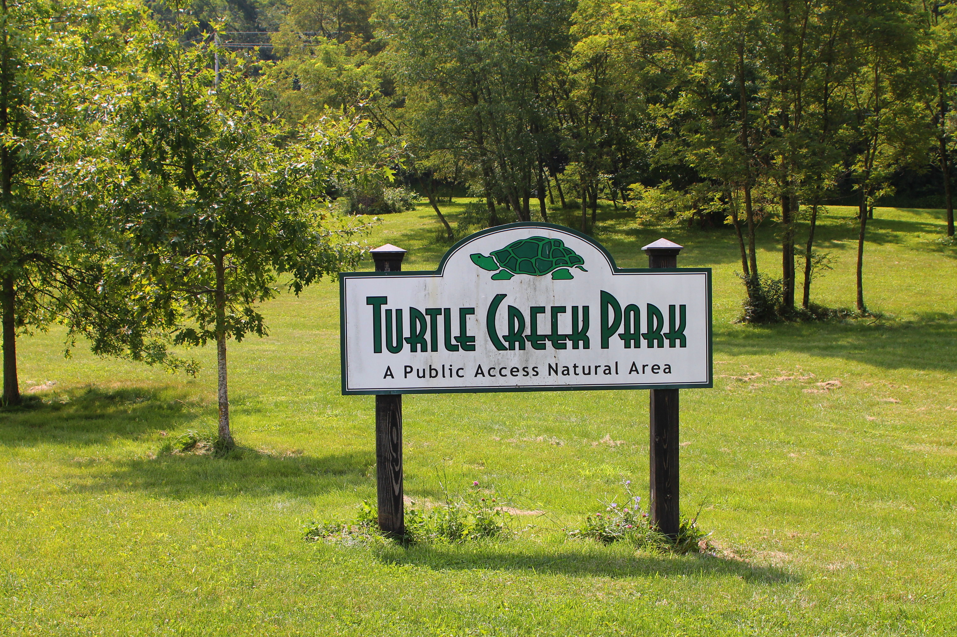 Sign for the Turtle Creek Park in Union County, PA